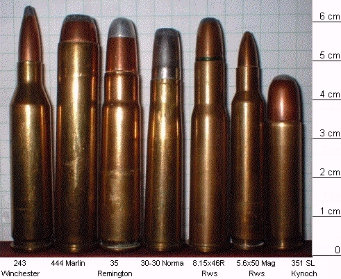 My picture ( Lax) 243 Win 444 Marlin 35 Rem 8.15x46R 30-30 5.6x50 Mag 351SL